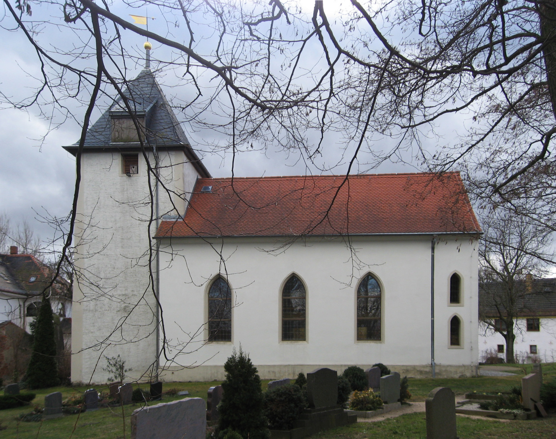 Church Leipzig-Goebschelwitz, Goebschelwitzer Strasse 75